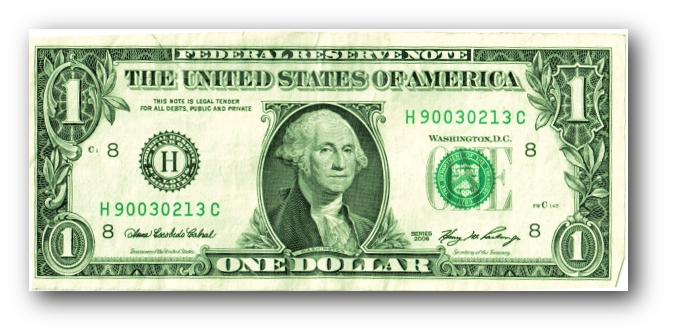 Serial Number provides the entry point to provide feedback on the Do Good Gauge essay called "What is the Do Good Gauge?"